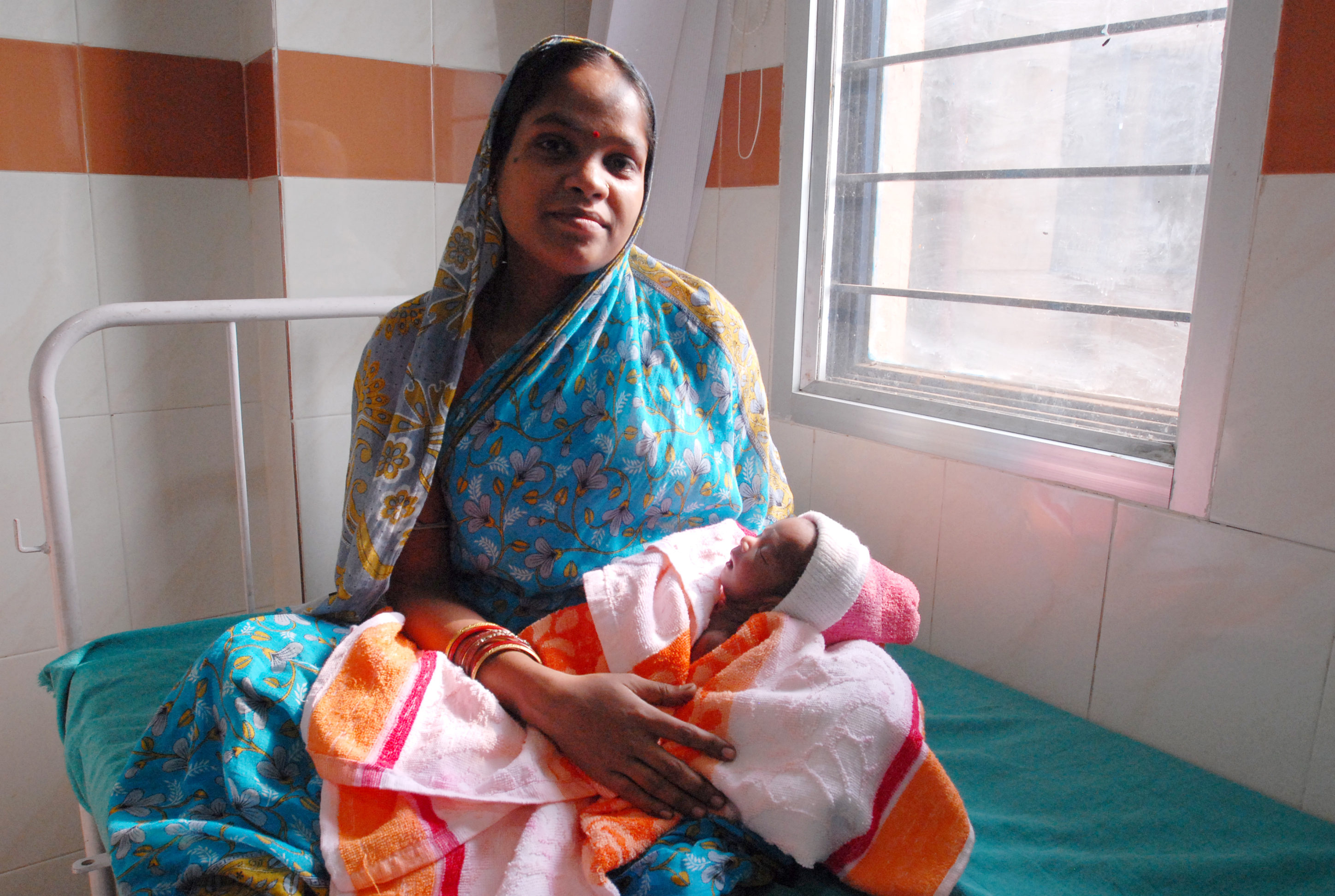 A mother and her newborn child, beneficiaries of a UK-funded maternal health and family planning programme in Orissa, one India's poorest states.